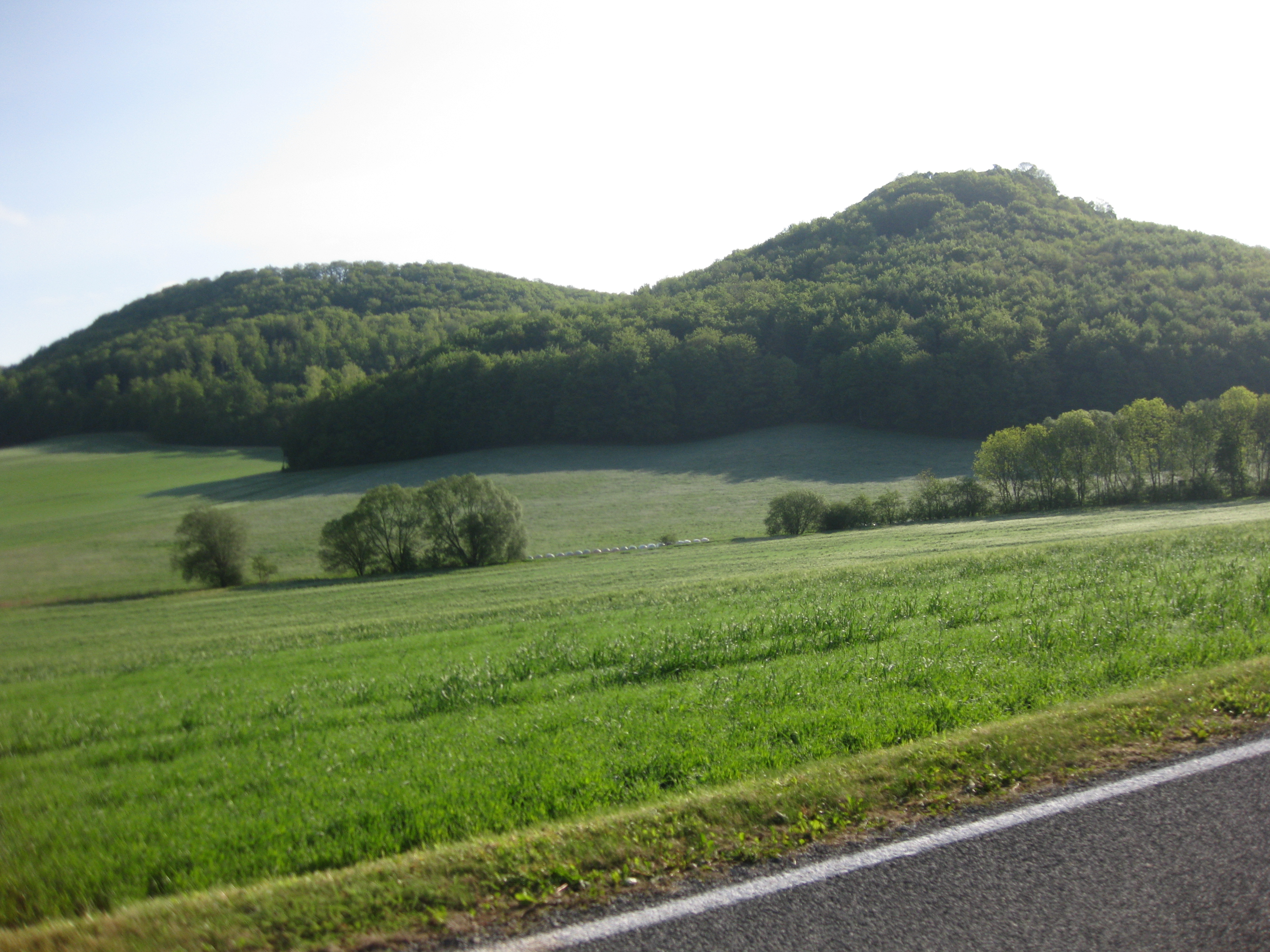 Martinfeld Schloßberg